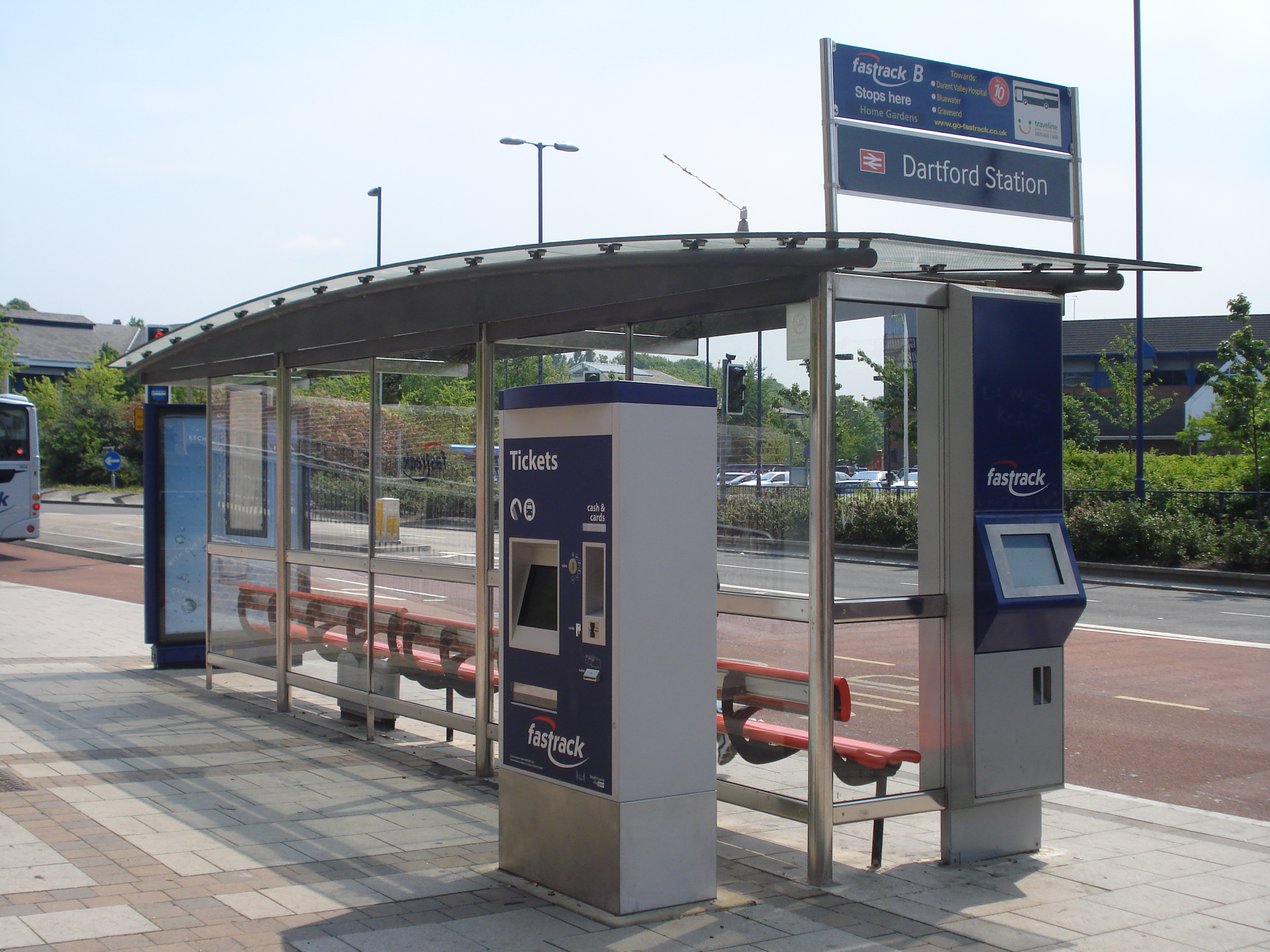 Fastrack stop, including off-vehicle ticket machine, at Dartford Station.